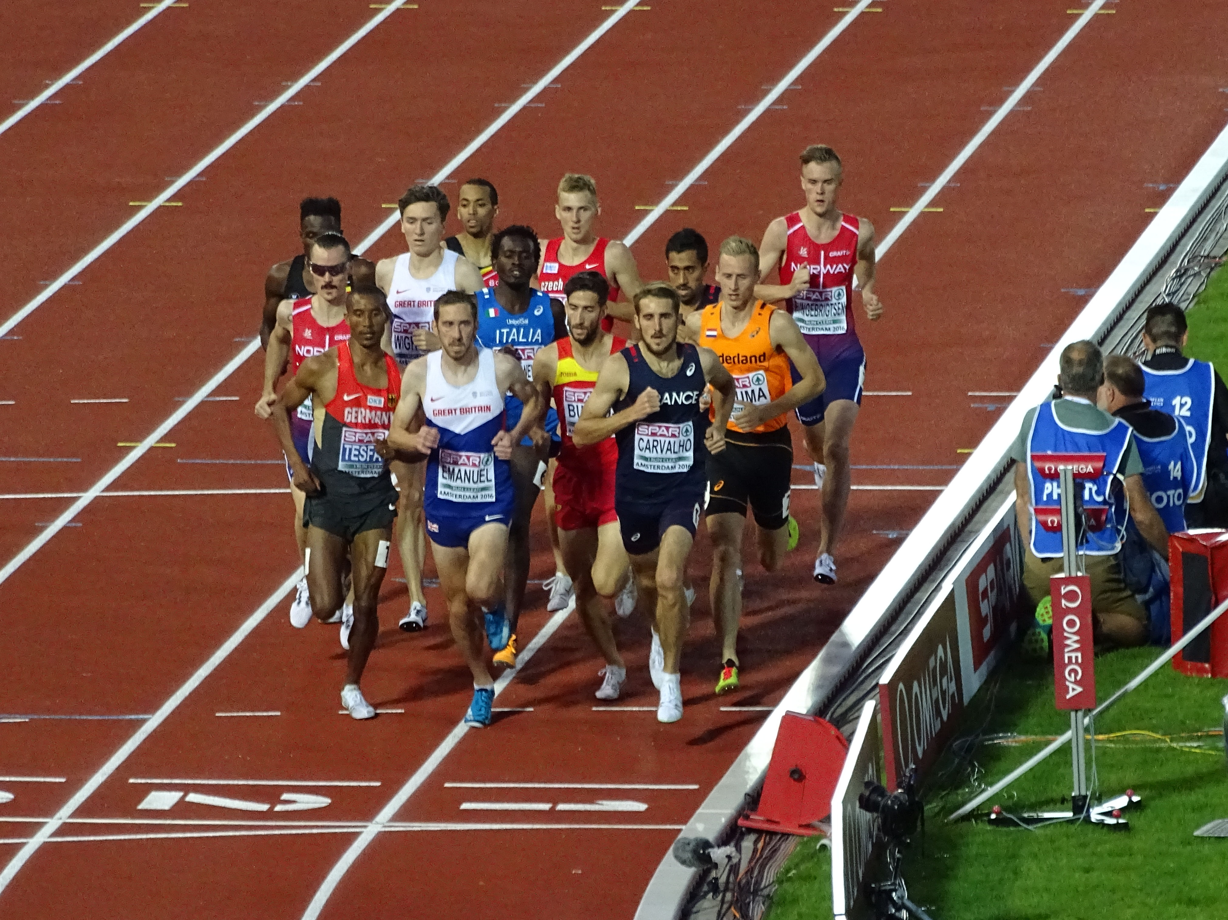 1500 metres final at the 2016 European Championships in Athletics in Amsterdam.